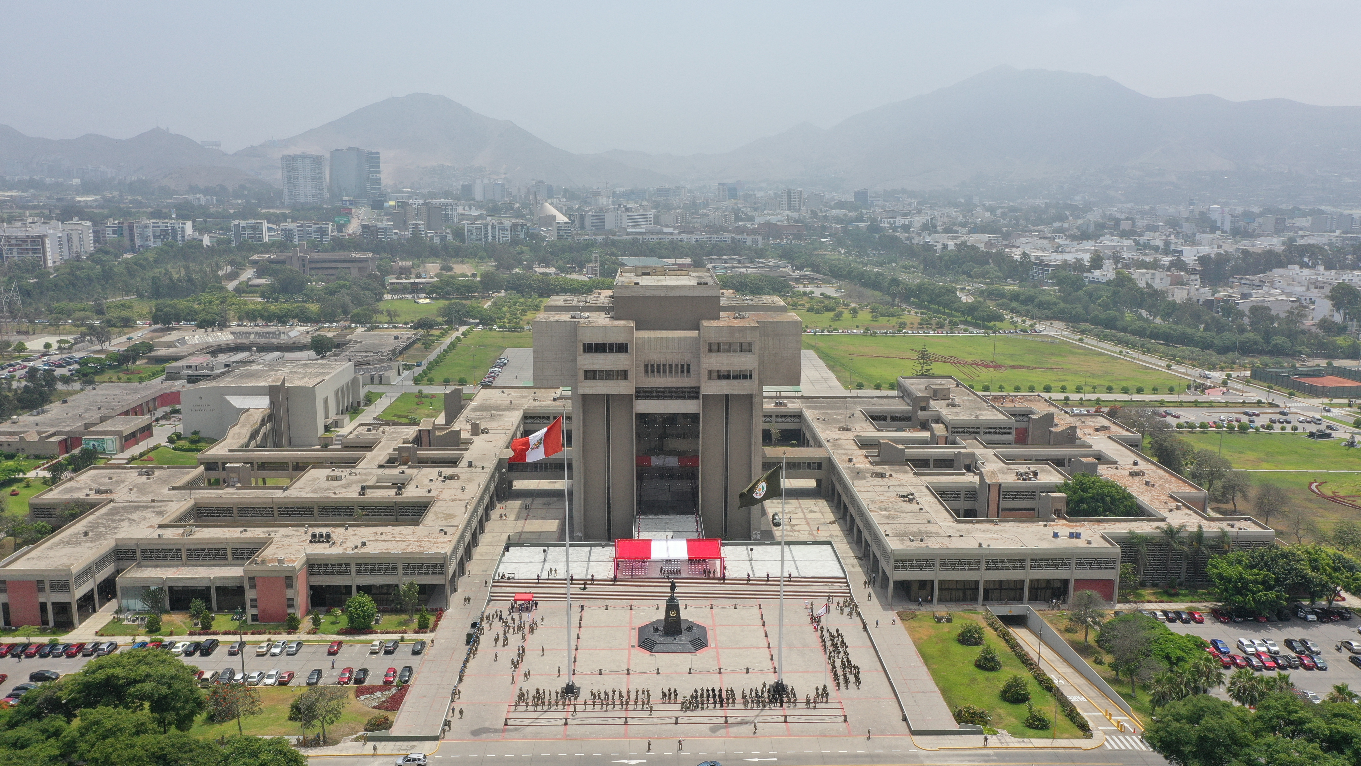 default